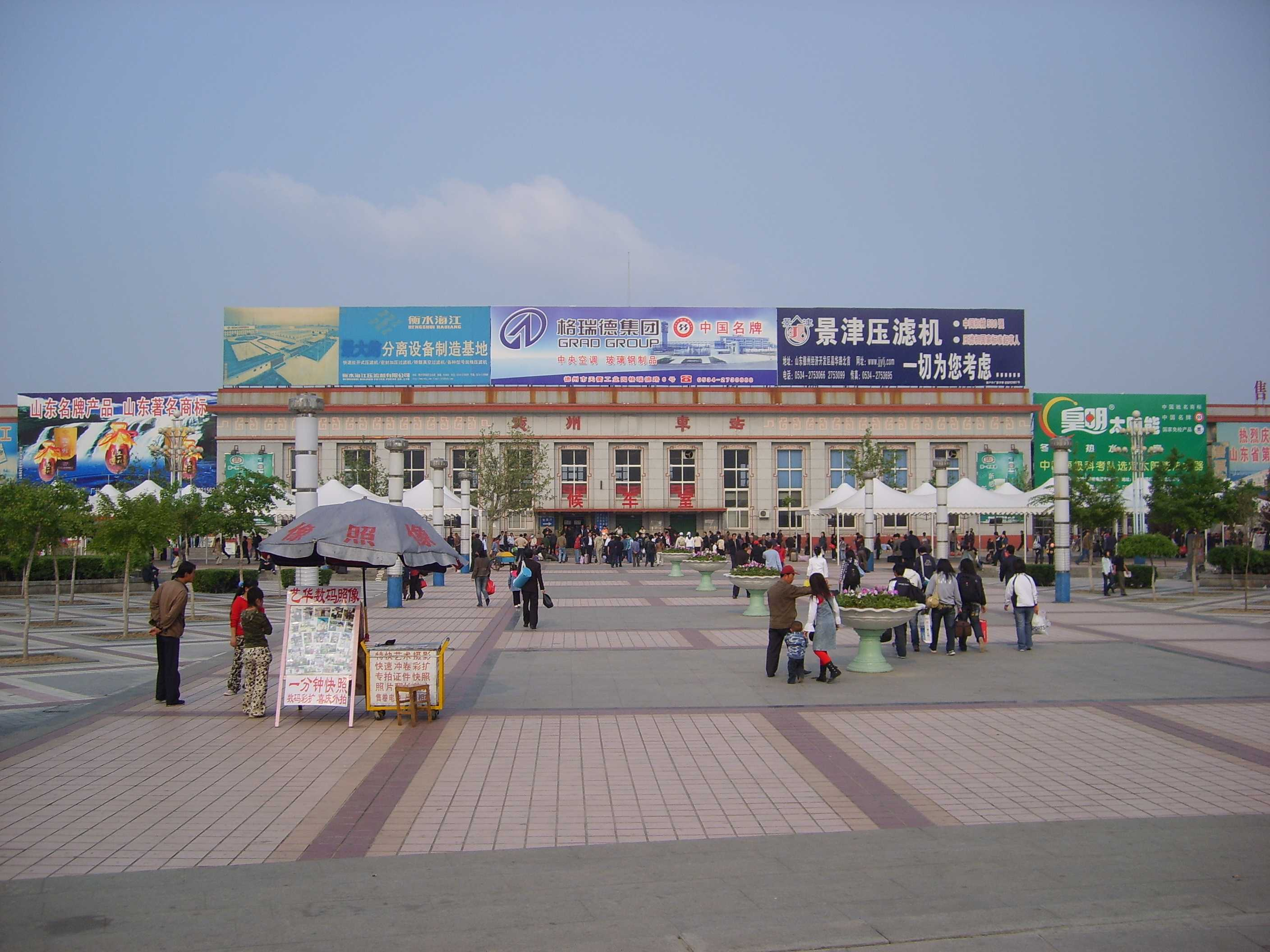 山东德州火车站DeZhou Railway Station